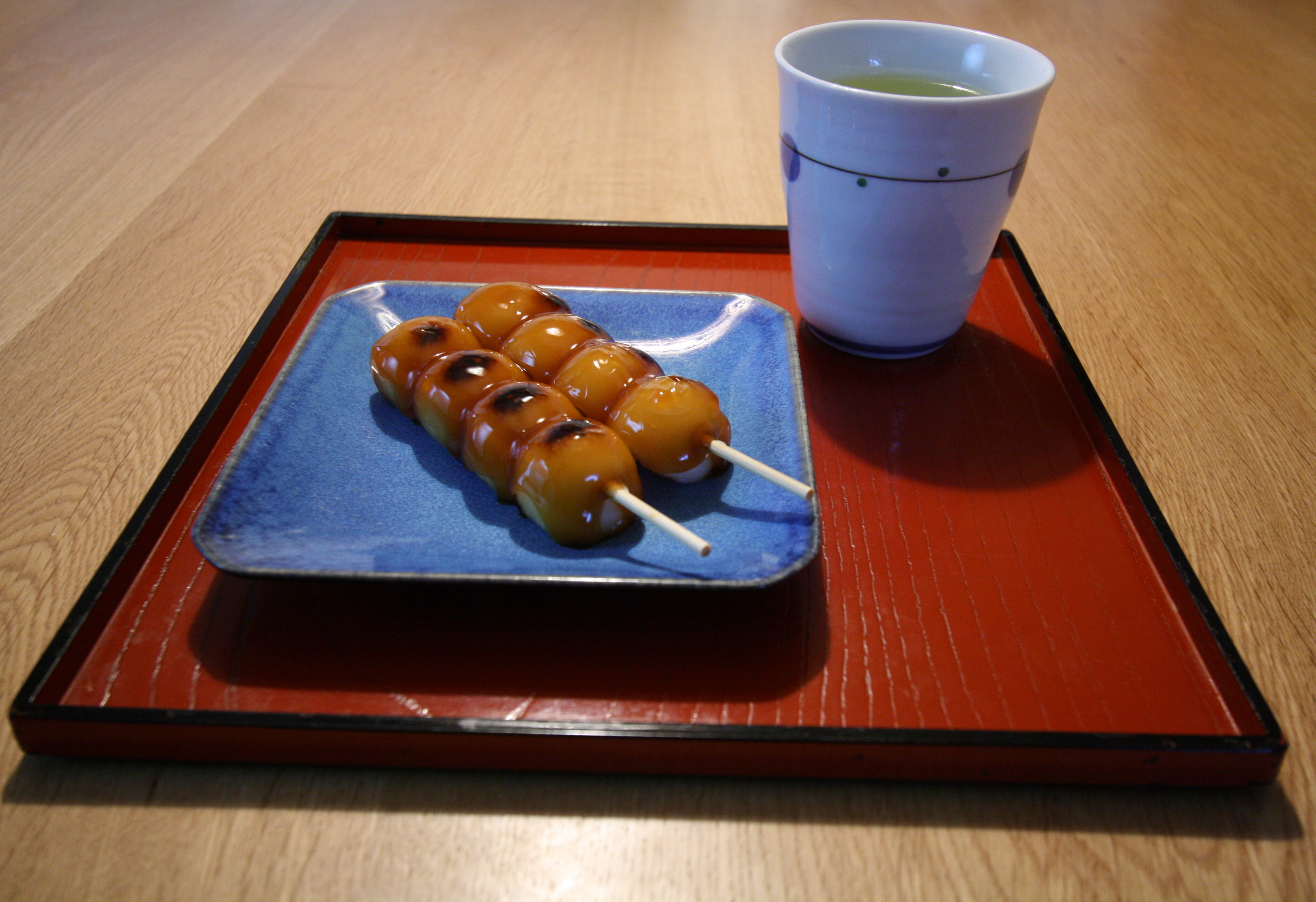 Mrs. Shimoda prepared me a little snack when I came back from my cross-Gifu cycling adventure on Yuya's tremendously undersized bike. Oooh my buttocks...